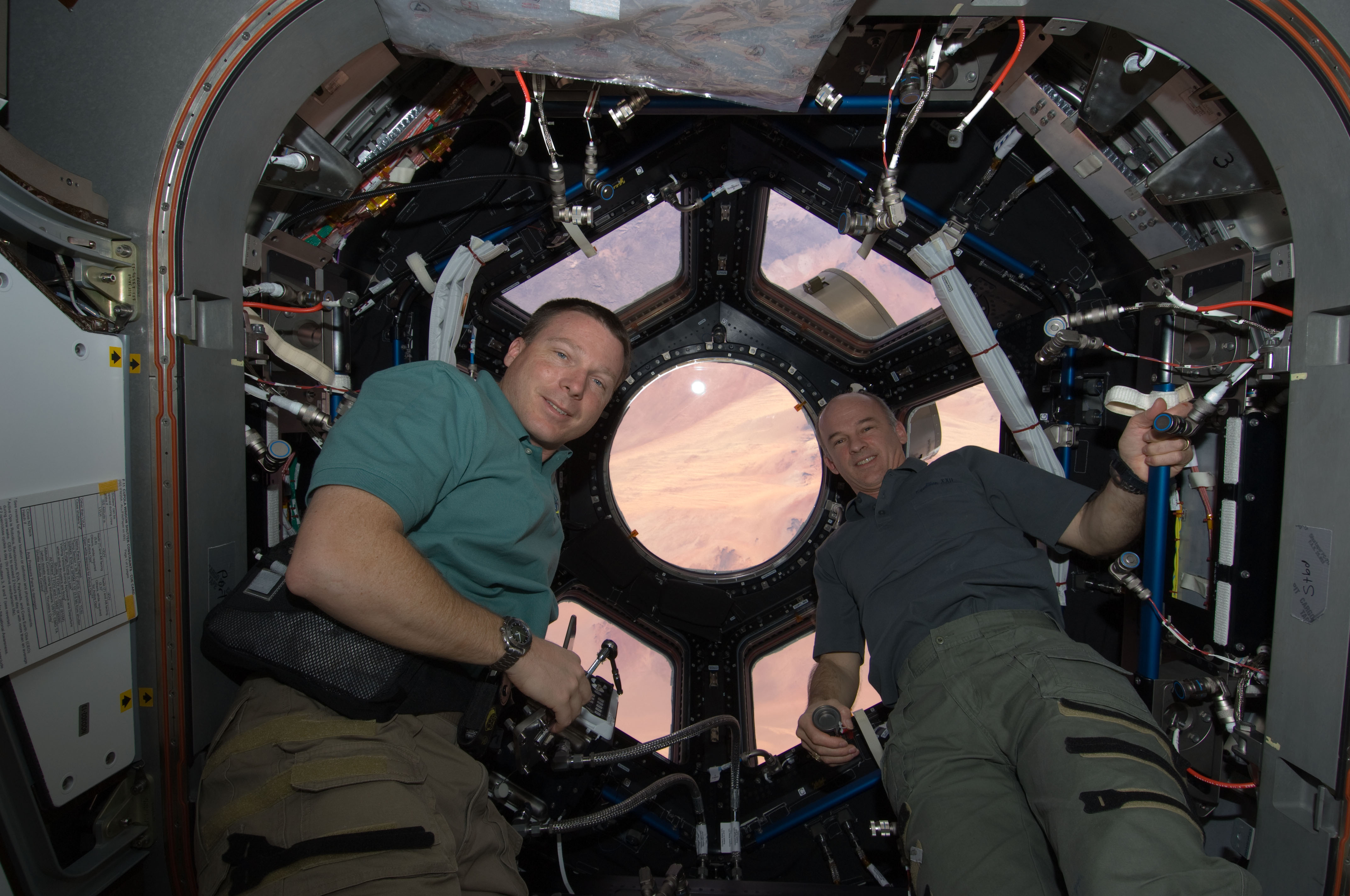 NASA astronauts Terry Virts (left), STS-130 pilot; and Jeffrey Williams, Expedition 22 commander, pose for a photo near the windows in the newly-installed Cupola of the International Space Station while space shuttle Endeavour remains docked with the station.